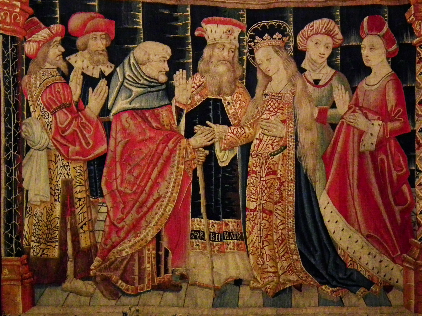 The Marriage of the Virgin, "Tapisseries de la Vierge" Collégiale Notre-Dame Native nameCollégiale Notre-DameLocationBeaune, FranceCoordinates47° 01′ 27.48″ N, 4° 50′ 11.94″ E Established12c (Initial construction)Authority control : Q2002381 VIAF: 167834699 LCCN: n96047365 WorldCat institution QS:P195,Q2002381